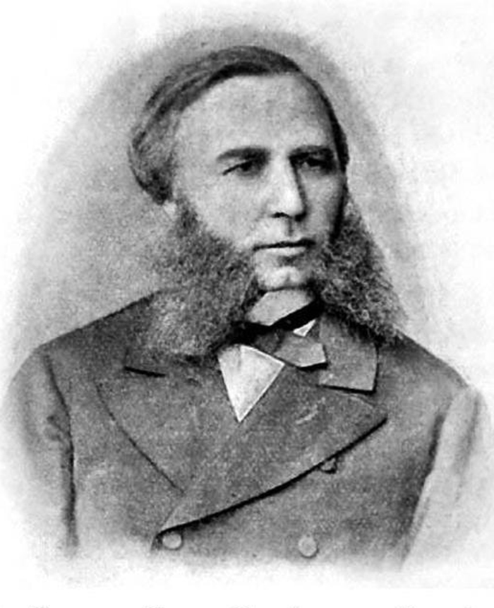 Ivan Dmitrievich Putilin, Head of Criminal Investigation Department of Saint Petersburg, 1866-93